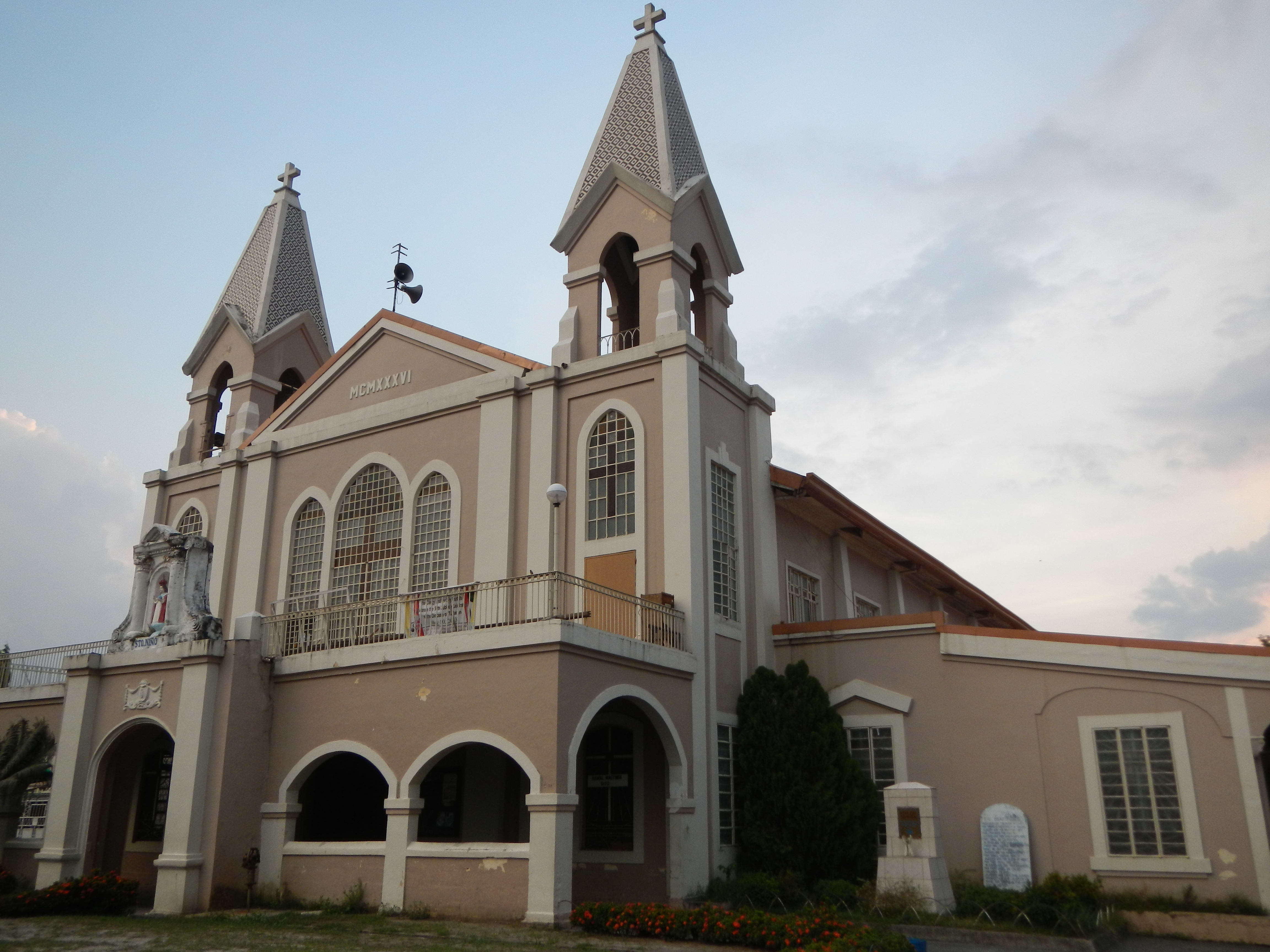 List of Local Candidates In Bamban, Tarlac